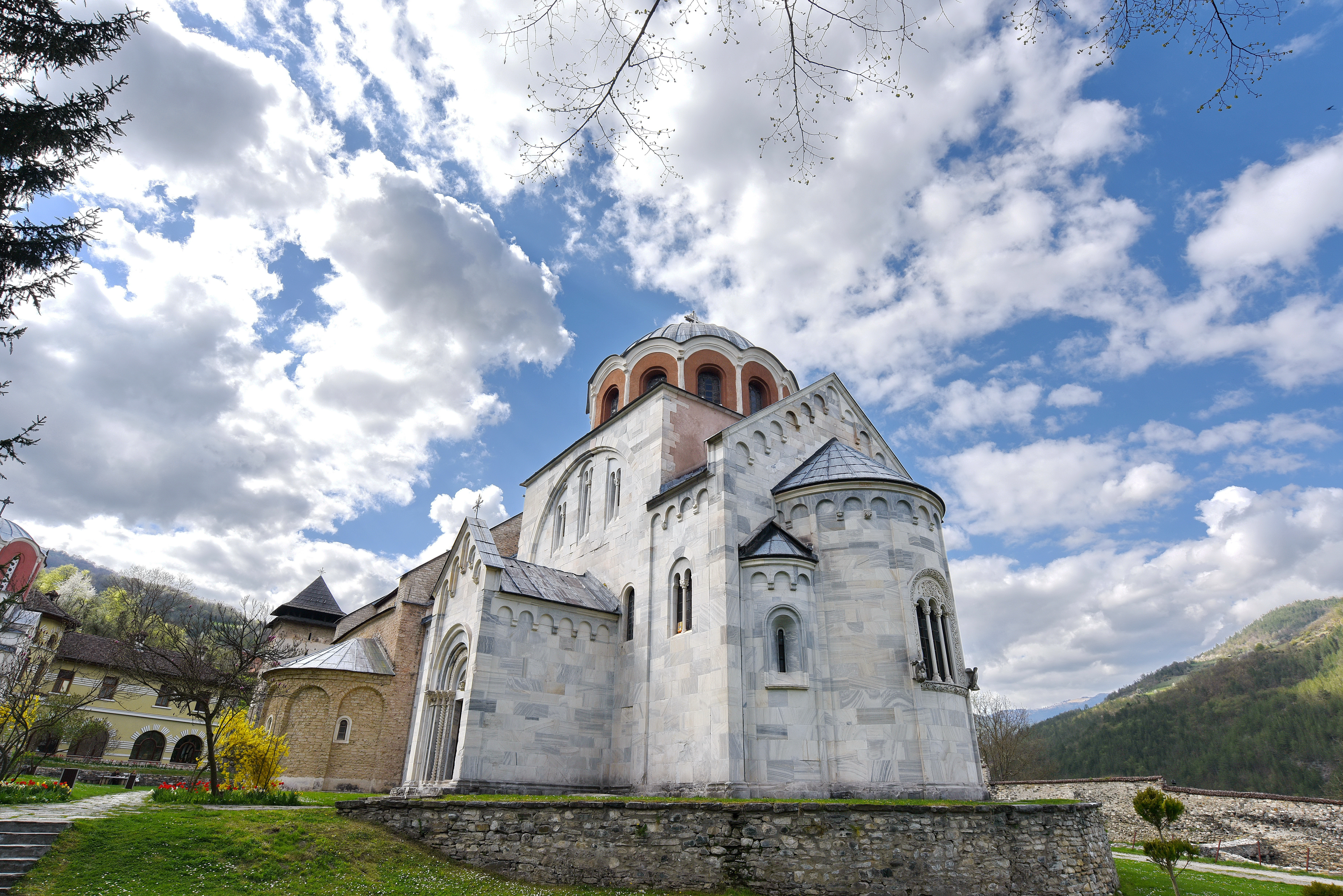 The Studenica Monastery (Serbian Cyrillic: Манастир Студеница, Manastir Studenica, Serbian pronunciation: [mânastiːr studɛ̌nit͡sa]) is a 12th-century Serbian Orthodox monastery situated 39 kilometres (24 mi) southwest of Kraljevo, in central Serbia. It is one of the largest and richest Serb Orthodox monasteries. 486517°N 20.531493°E